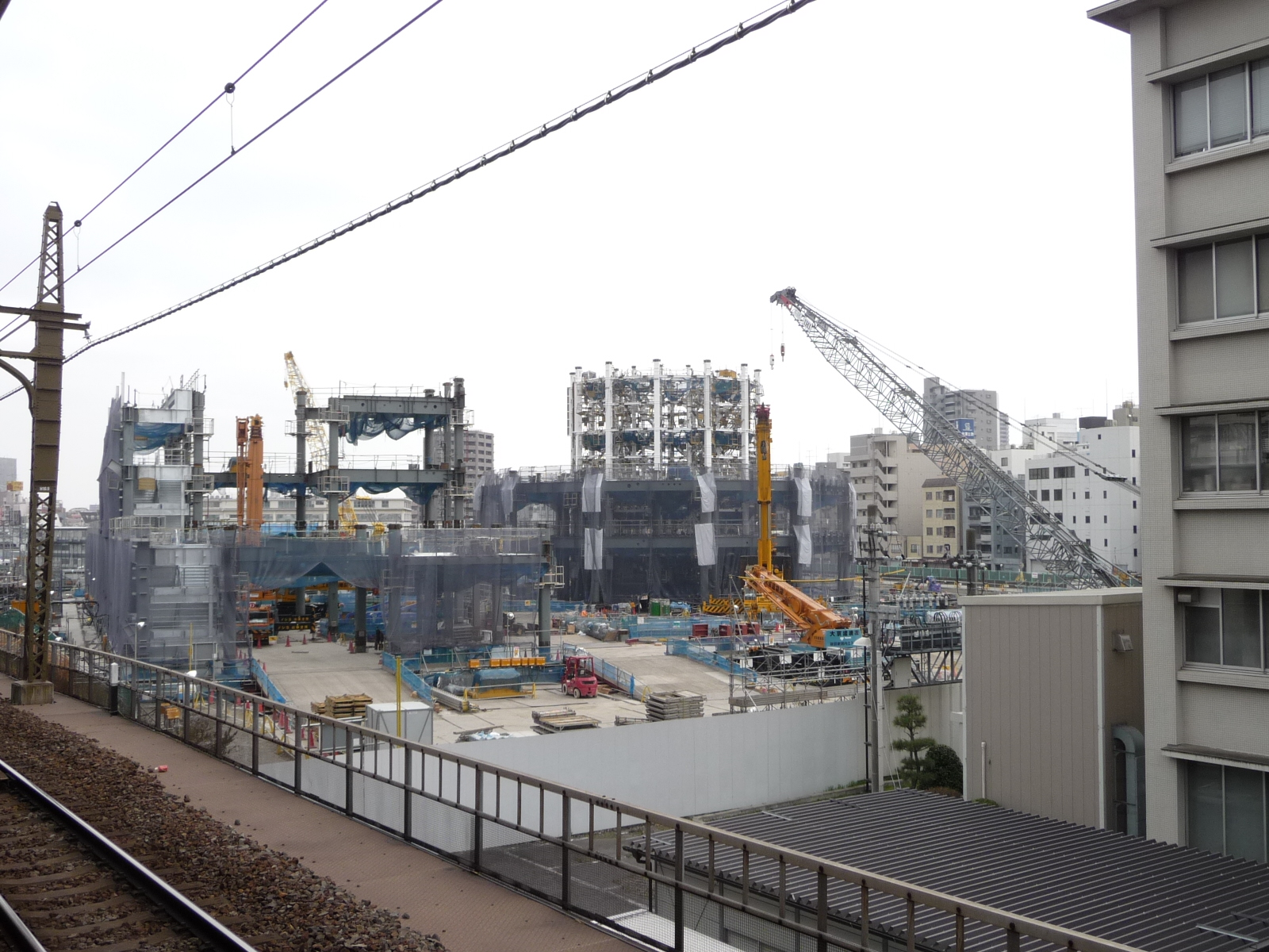 Tokyo Sky Tree, shot from platform of Narihirabashi Station, Tobu Railway on Feb. 15, 2009, 7 months after construction begins.